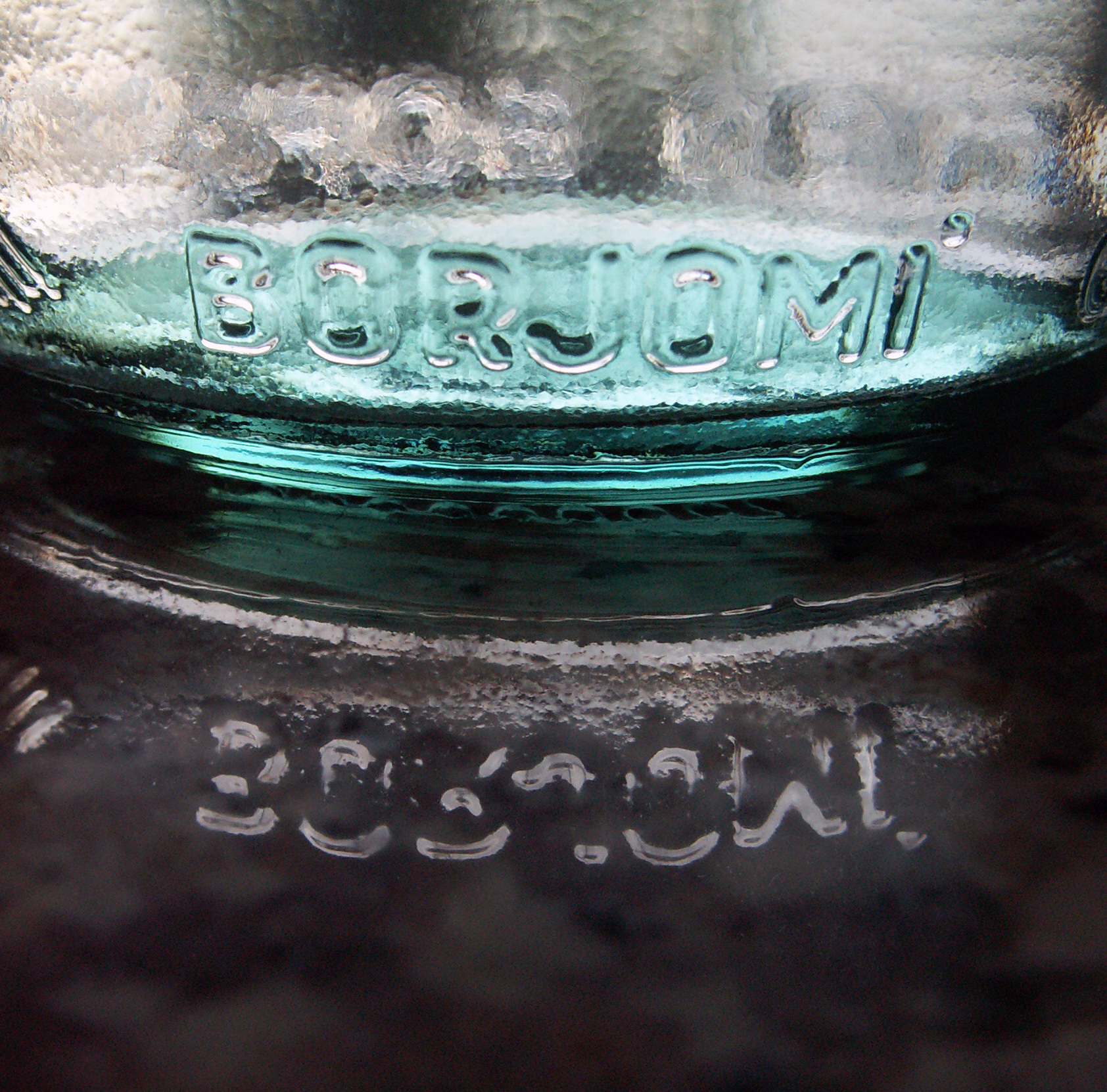 The glass bottom of a bottle Borjomi spring water from Georgia, Eastern Europe and its reflection, Februari 2005.